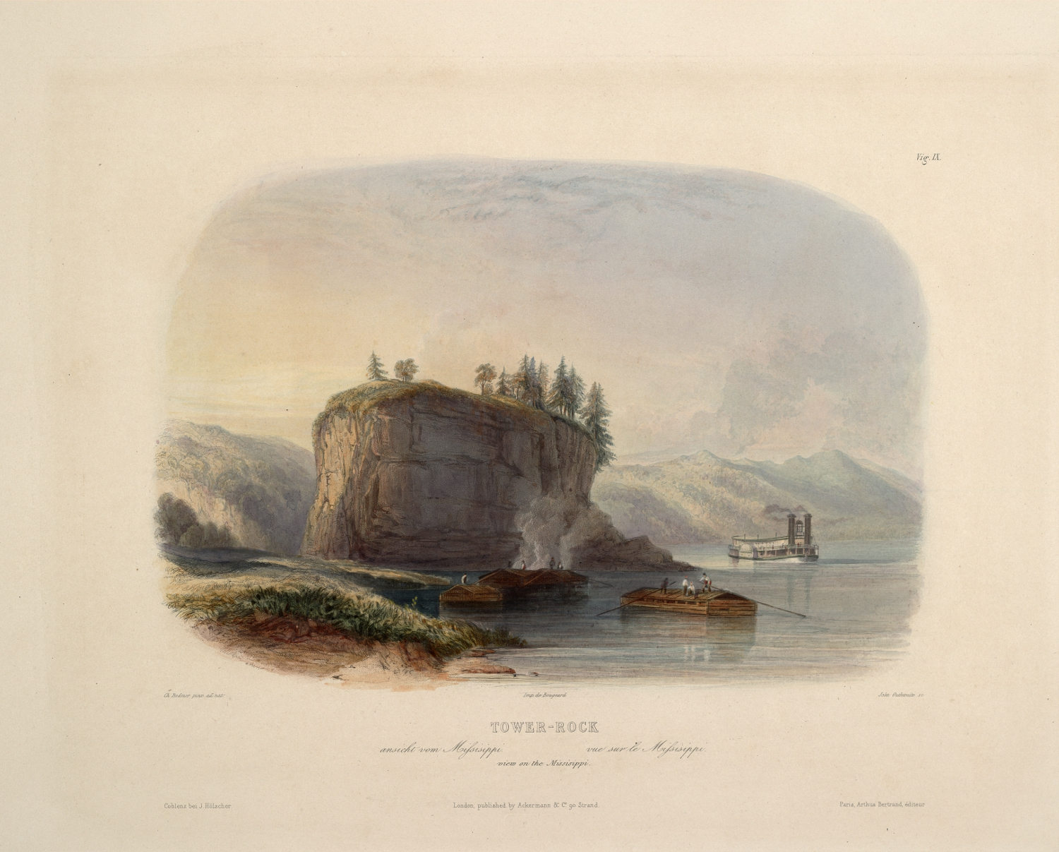 Aquatint by Karl Bodmer (1809 - 1893), depicting Tower Rock.